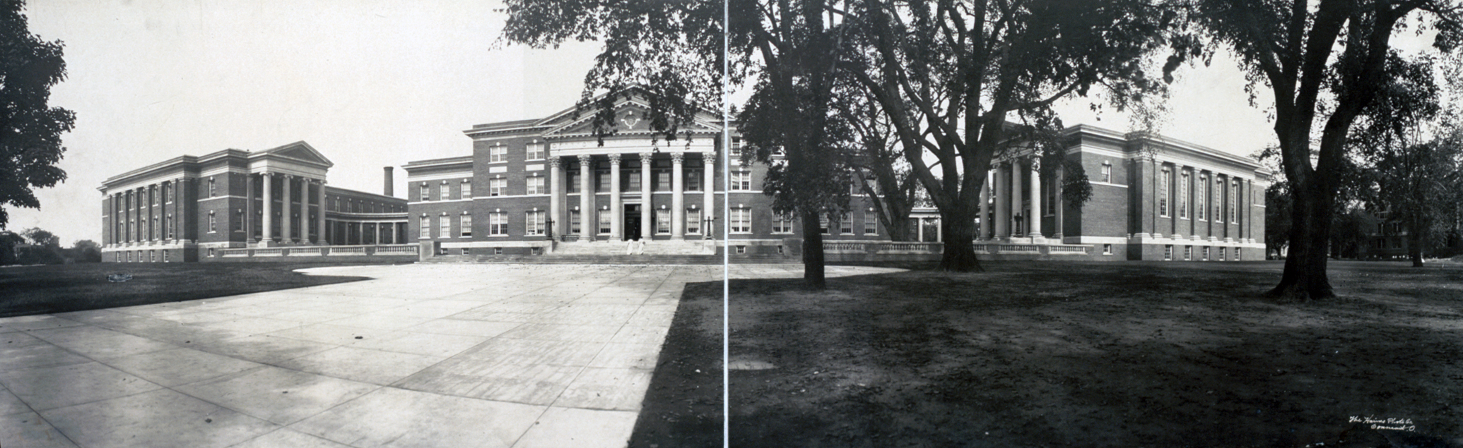 A view of the New York State Normal School, the earliest predecessor of SUNY Albany, located on Western Avenue in Albany, New York, United States